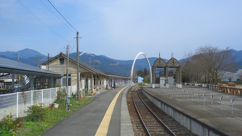 Kumagawa Railroad Yunomae Station enclosure, 14 March 2007